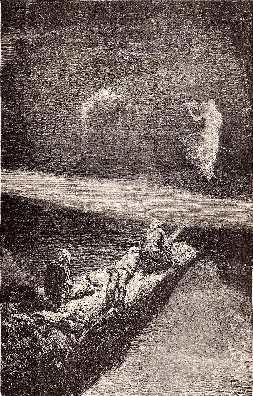 Illustration 12 from the Graphic magazine serialisation of She. The picture is of a scene in the caverns, as Ayesha leads them to the Spirit of Life. Drawn by E. K. Johnson (1825-1896[1]); published January 1887